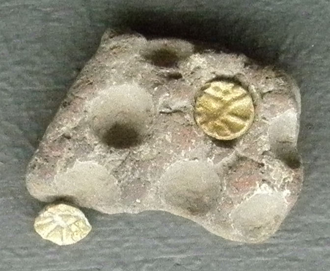 Two golden coins and coin plate from baked clay from the Staré Hradisko site from the Early Iron Age (La Tène culture). Photo taken in the Regional Museum in Olomouc.